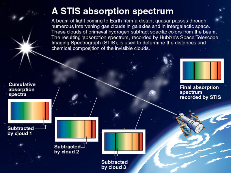 Illustrates cumulative absorption spectra observed by Hubble. A beam of light coming to Earth from a distant quasar passes through numerous intervening gas clouds in galaxies and in intergalactic space. These clouds of primeval hydrogen subtract specific colors from the beam. The resulting "absorption spectrum," recorded by Hubbles Space Telescope Imaging Spectrograph (STIS) is used to determine the distances and chemical composition of the invisible clouds.